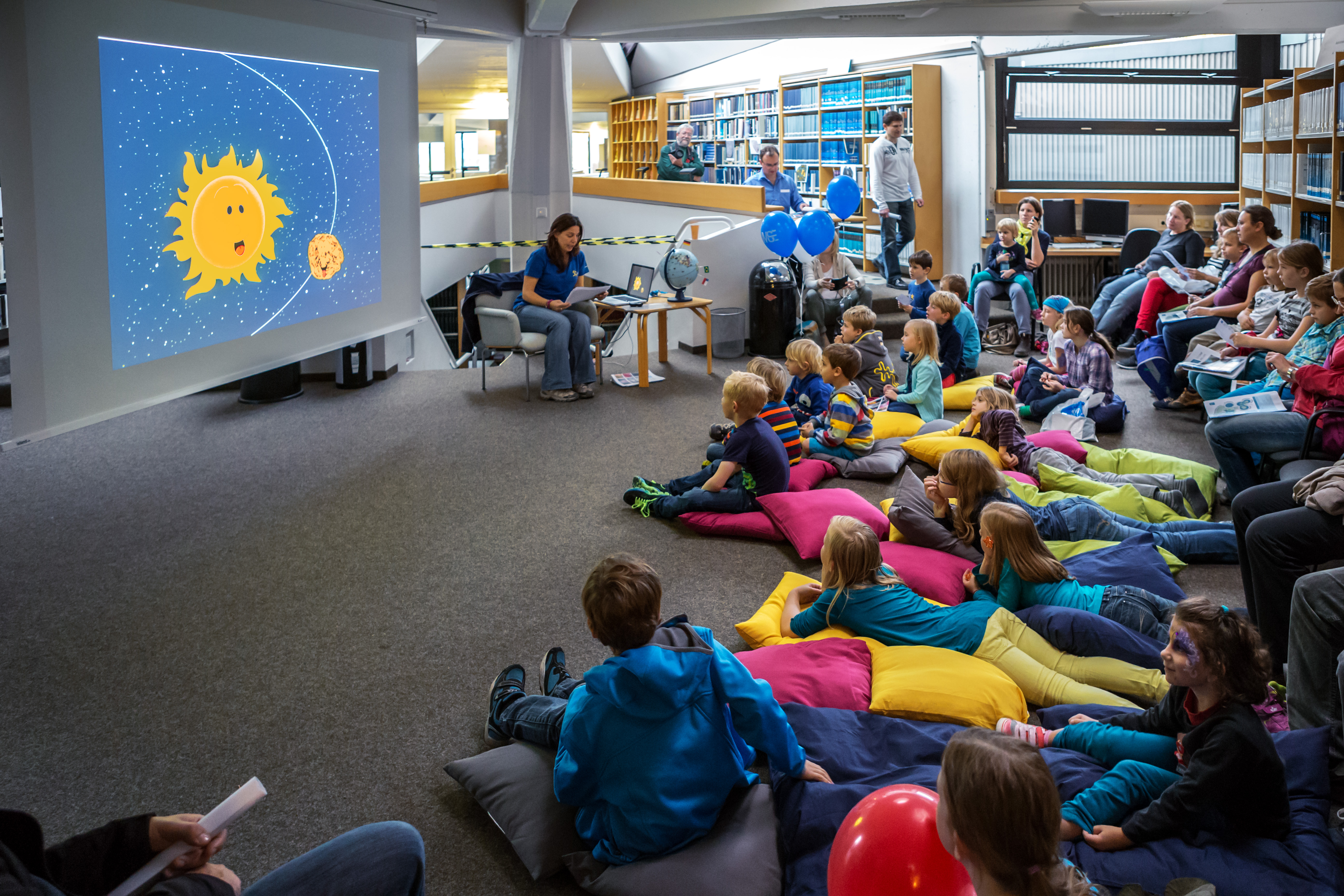 This photograph from the ESO Open House Day 2014 shows children and adults listening to the adventures of Space Rock Pedro. This was one of the sixteen activities available when ESO Headquarters in Garching, Germany, opened its doors to the public on 11 October 2014. In conjunction with the other facilities based at the science campus in Garching, ESO invited visitors to experience at first hand the work of the world-leading ground-based astronomy organisation. Before the doors had even opened at 11:00 people were waiting outside, eager to look around the new headquarters and experience all the main activities available. In total, 3300 people took the chance to have their questions answered by experienced astronomers; see live experiments; join guided tours through the new office and technical buildings; listen to talks about ongoing astronomical research; and even participate in live interviews with astronomers in the Chilean Atacama Desert. Also included in the activities for this year’s Open House Day were presentations of ESO’s future projects, including the new ESO Supernova Planetarium&Visitor Centre, which will be constructed on site at the headquarters and will allow visitors to experience the world of ESO all year round from 2017. To view more photos from the event, visit our Facebook album. If you participated in the Open House Day 2014 and took pictures, we invite you to share them on Your ESO Pictures Flickr group.